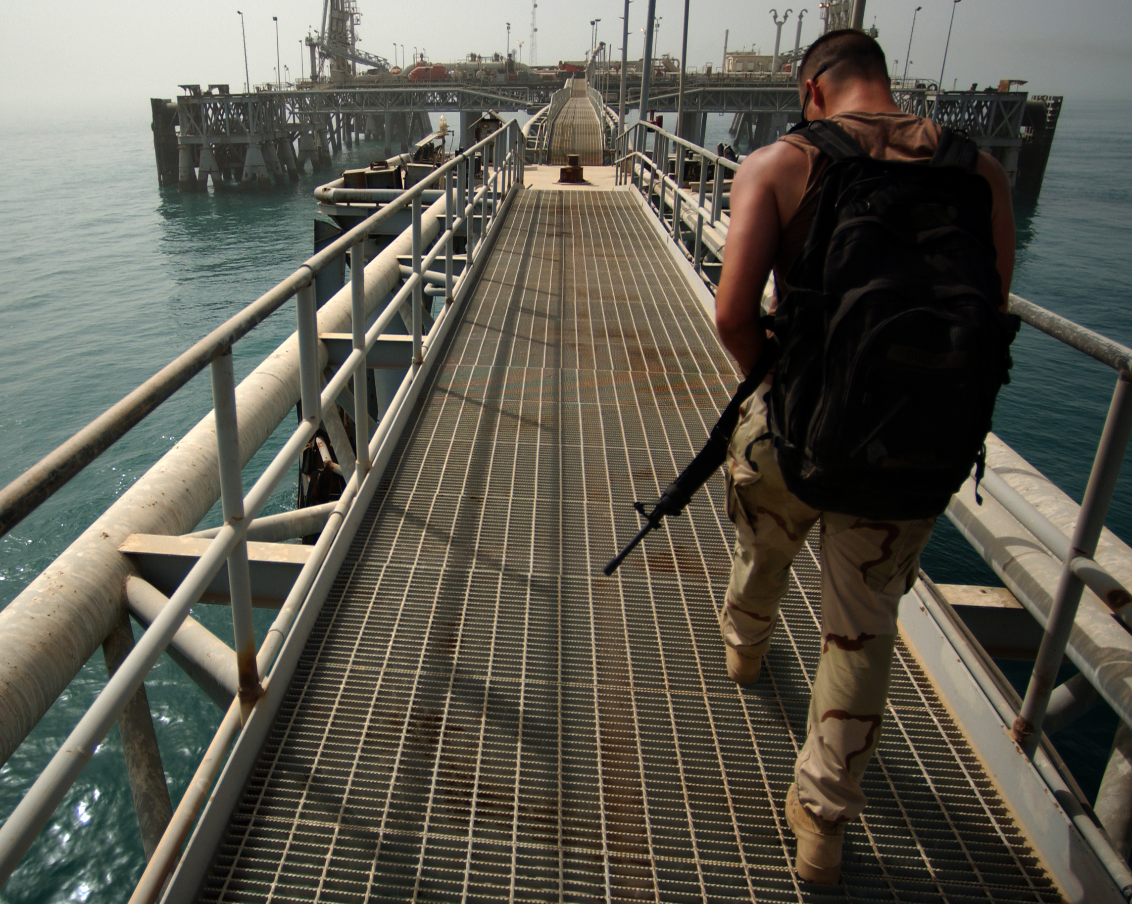 030901-N-6967M-033 The platform Mabot, is littered with shrapnel holes caused during the Iran-Iraq war, close to 15 years ago. (All Hands, September 2003, pg. 25) Photo by PH1 Shane T. McCoy. (RELEASED)